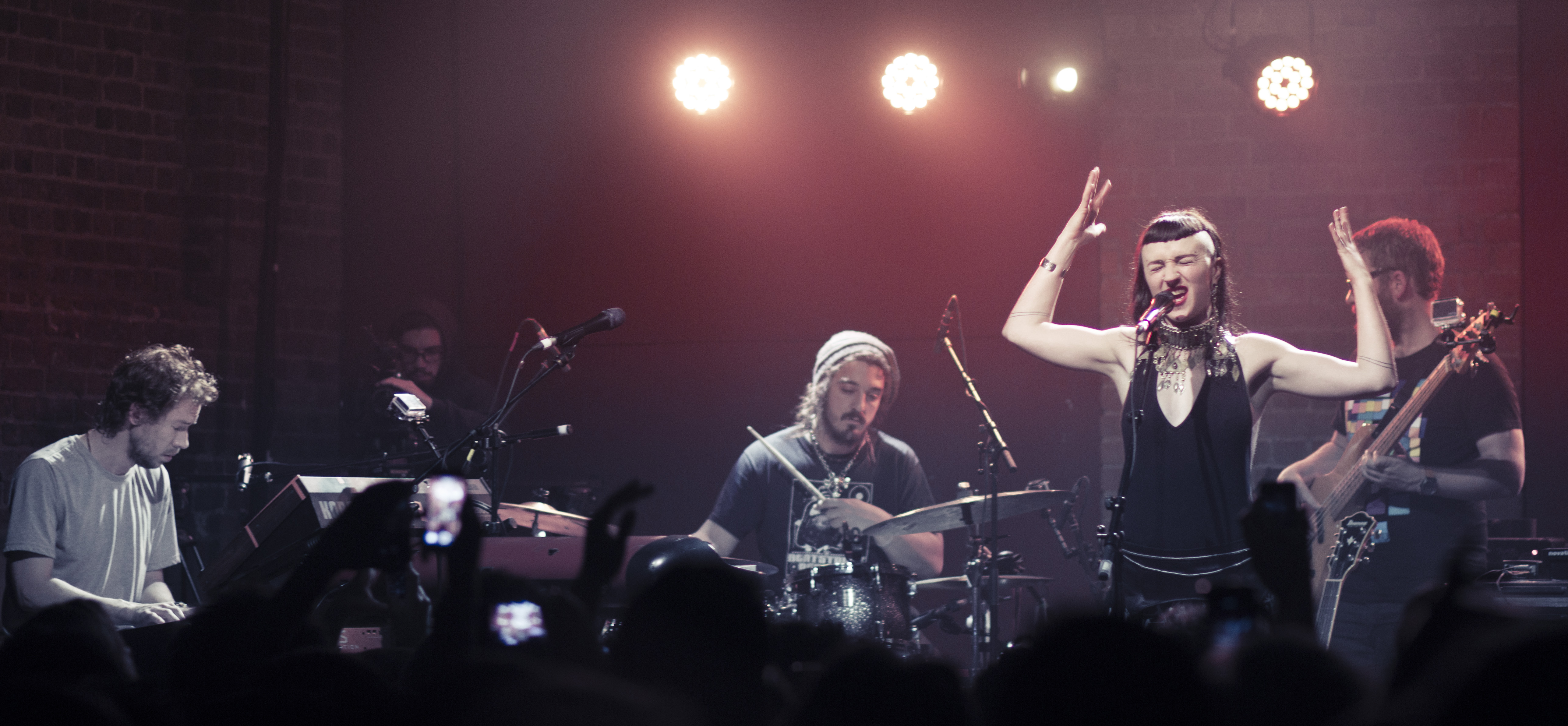 Hiatus Kaiyote 18/11